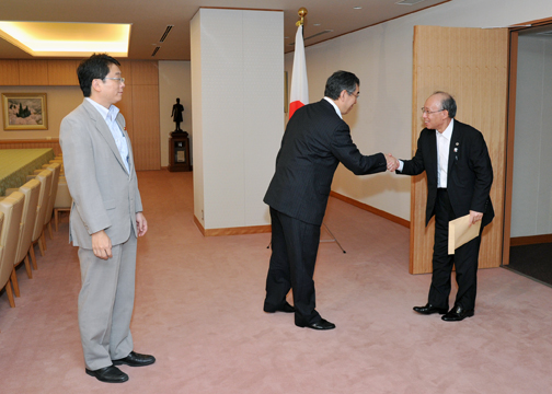 Kenji Utsunomiya, President of Japan Federation of Bar Associations, met Takeaki Matsumoto, Minister for Foreign Affairs, in Tōkyō Metropolis on August 4, 2011.